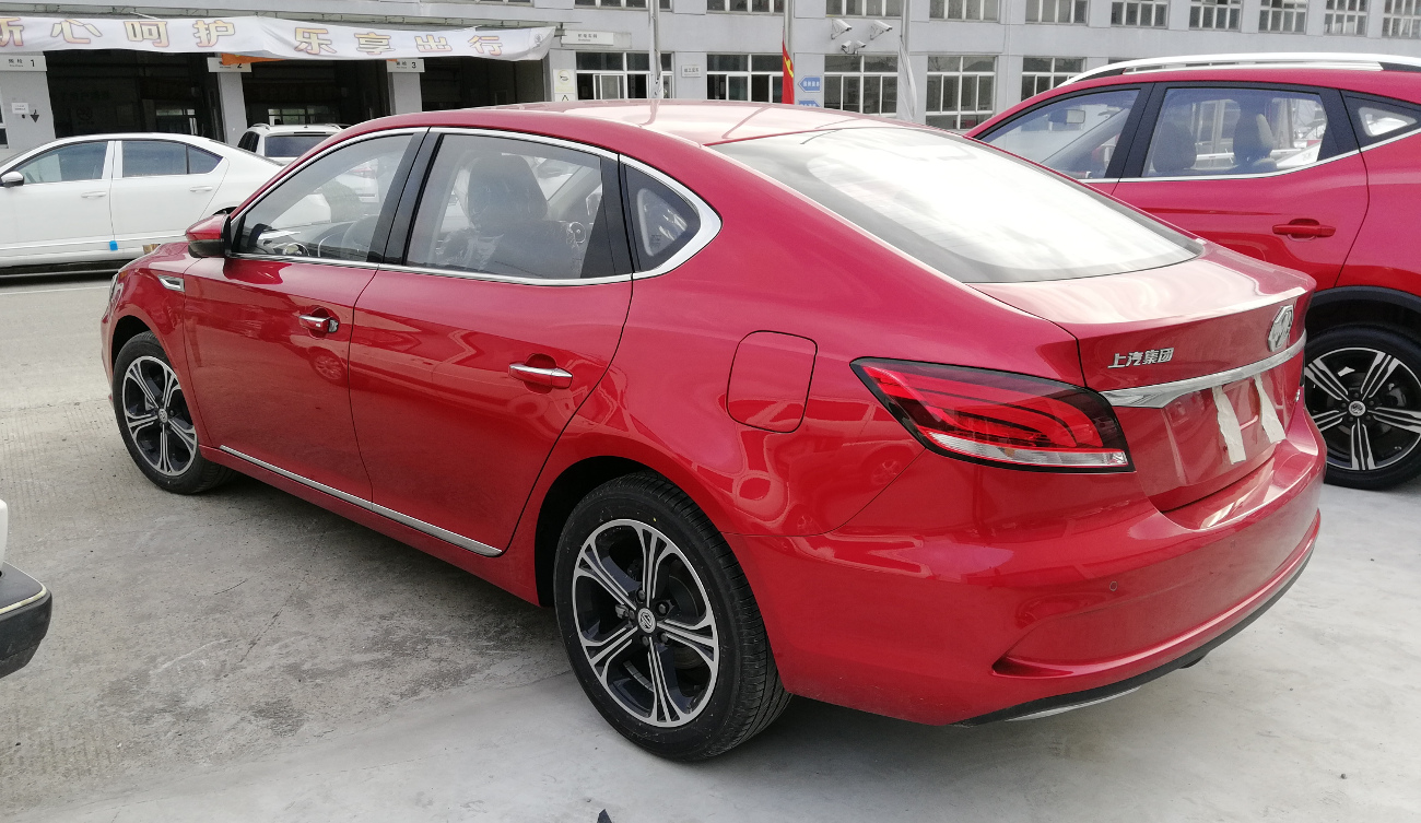 MG 6 II photographed in Shanghai, China.